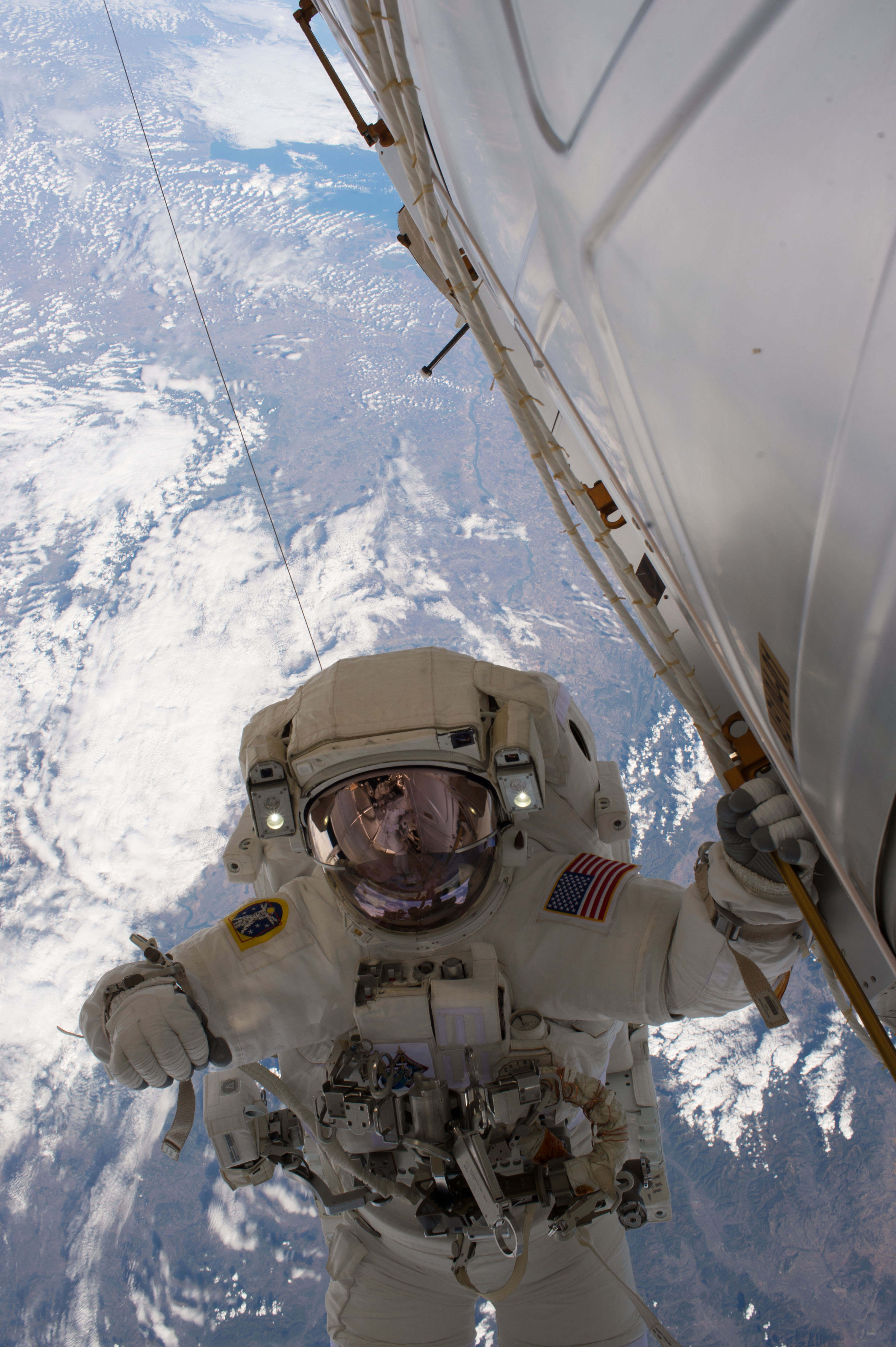 Astronaut Mark Vande Hei is pictured tethered to the outside of the U.S. Destiny laboratory module during a spacewalk on Oct. 10, 2017.